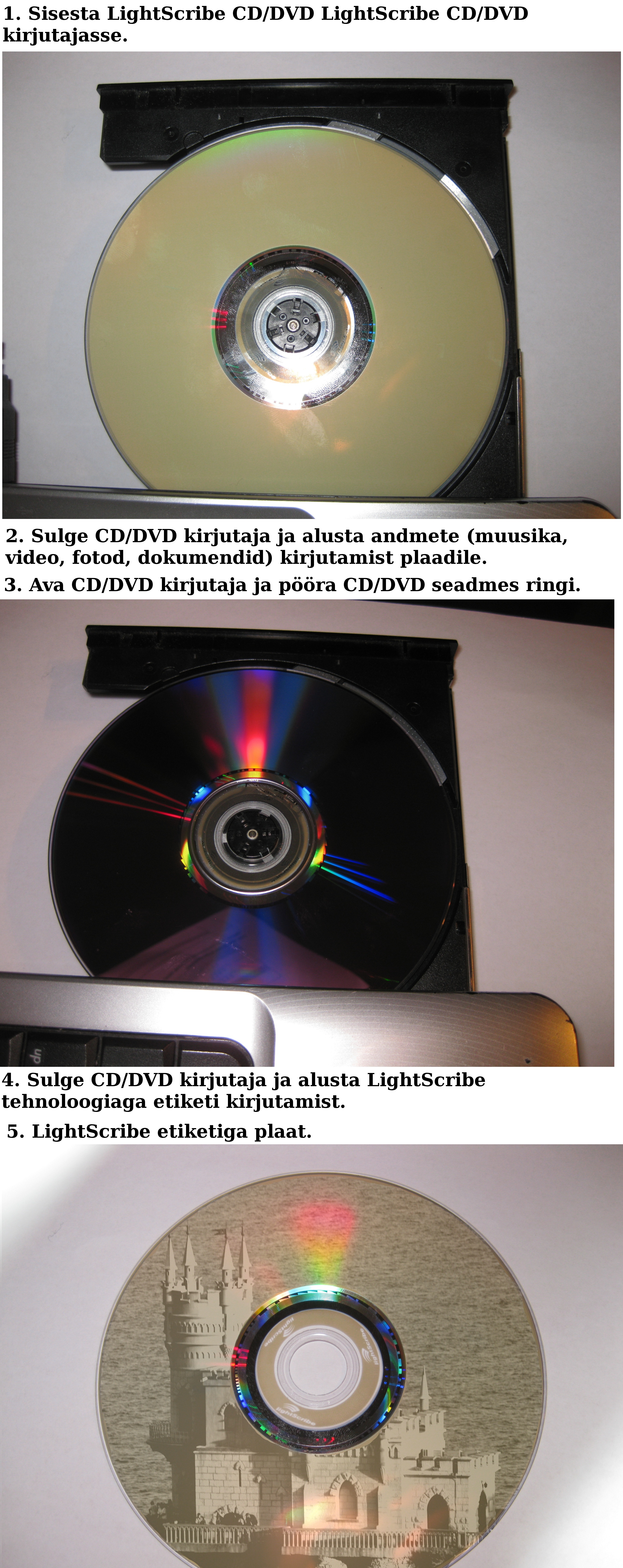 LightScribe CD/DVD writing example in Estonian.